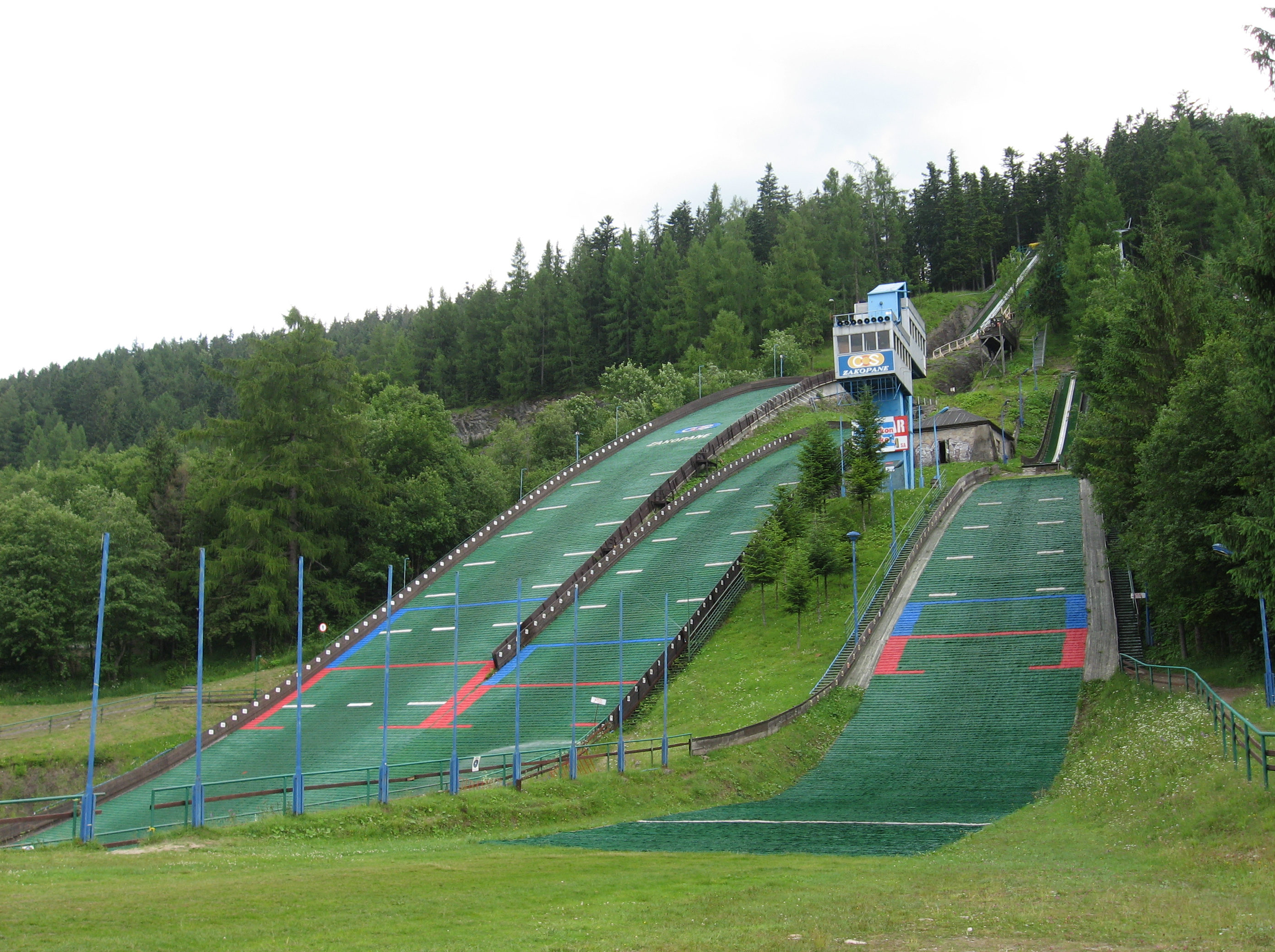 Complex of ski jumping hills of Średnia Krokiew in Zakopane in Polish Tatra Mountains. More information in Wikipedia.